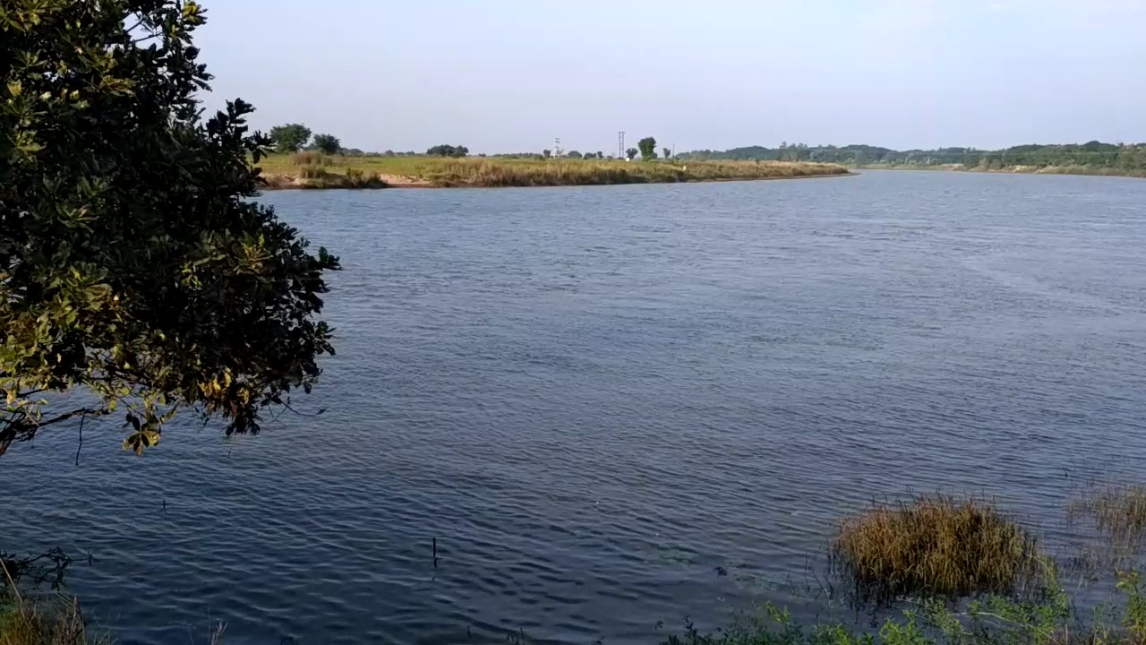 View of River Brahmani from Nilakanthapur Panchayat In Pattamundai